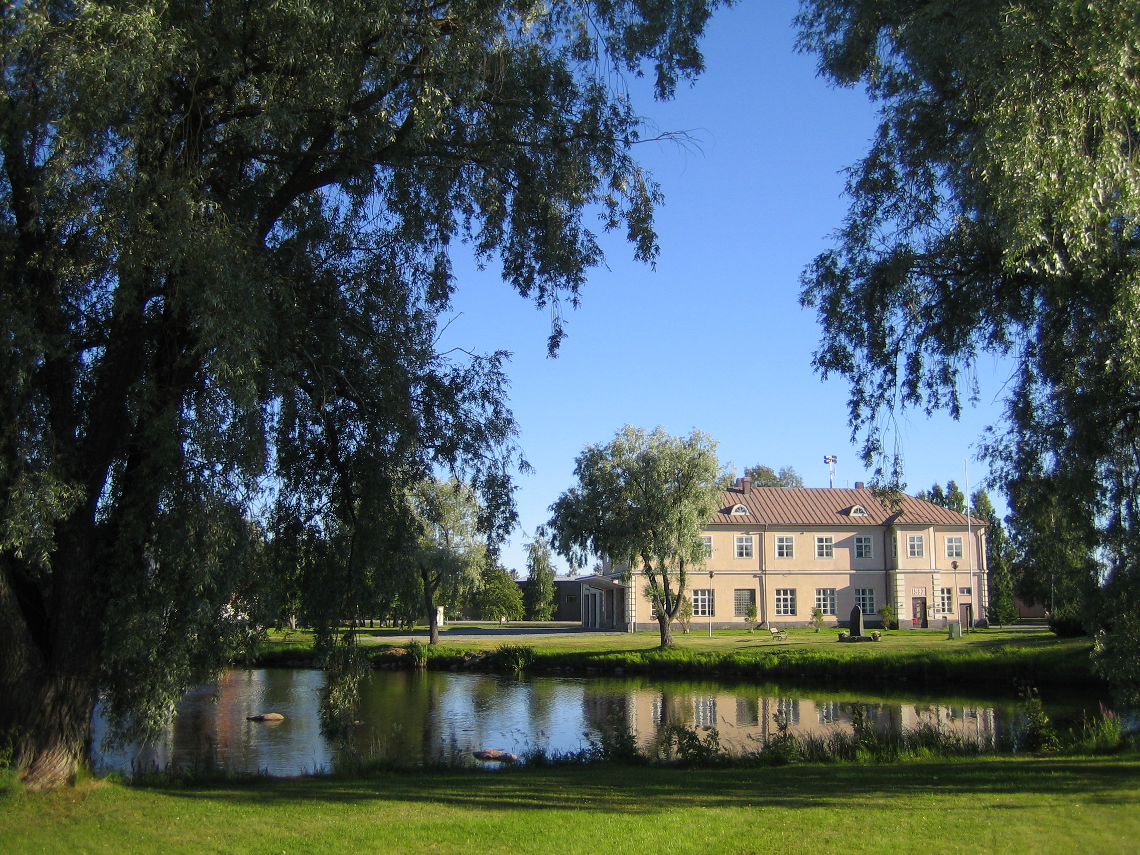 Kronoby River in Kronoby, Finland